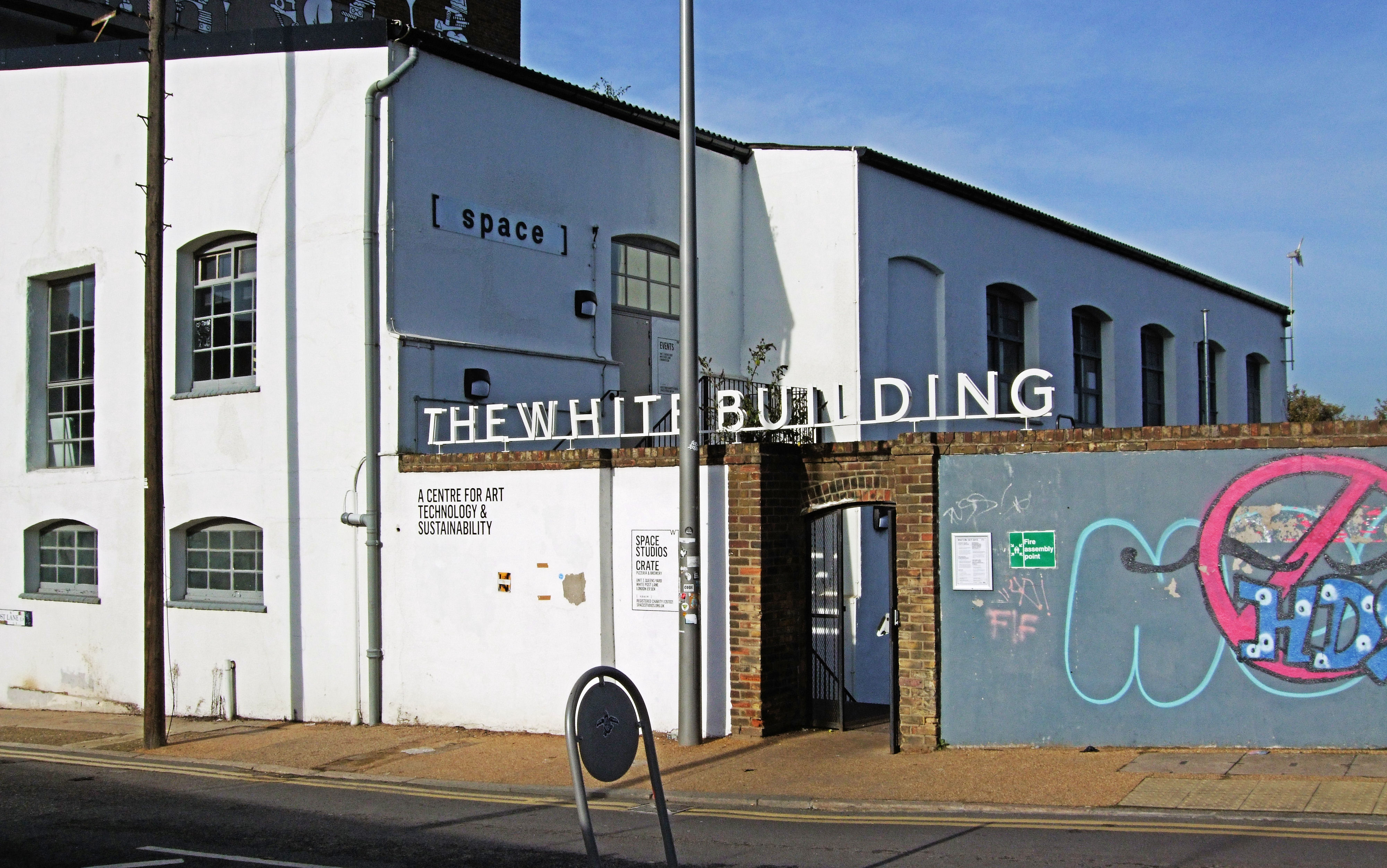 The White Building At Hackney Wick - London.